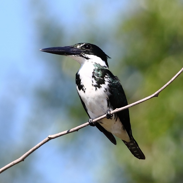 Amazon Kingfisher at Cuiabá River - MT - Brazil